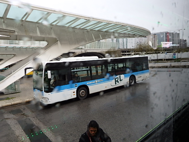 the bus from Oriente station